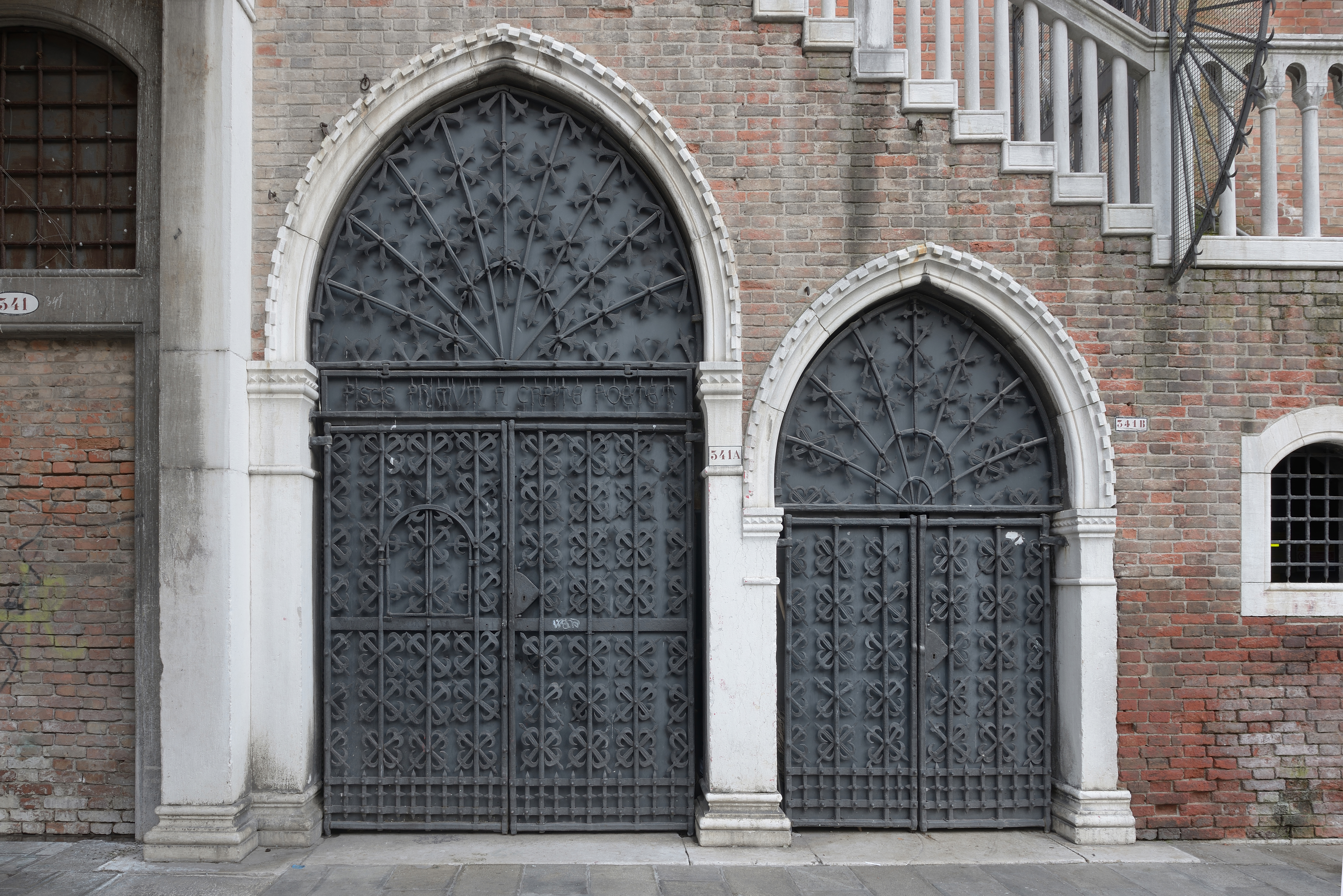 Iron gates at the Pescaria fish market (Gothic Revival, 20th century) in Venice